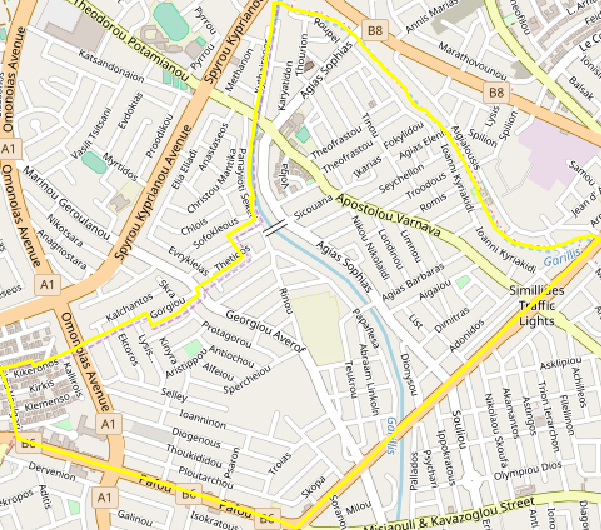 Map of Apostolos Andreas.